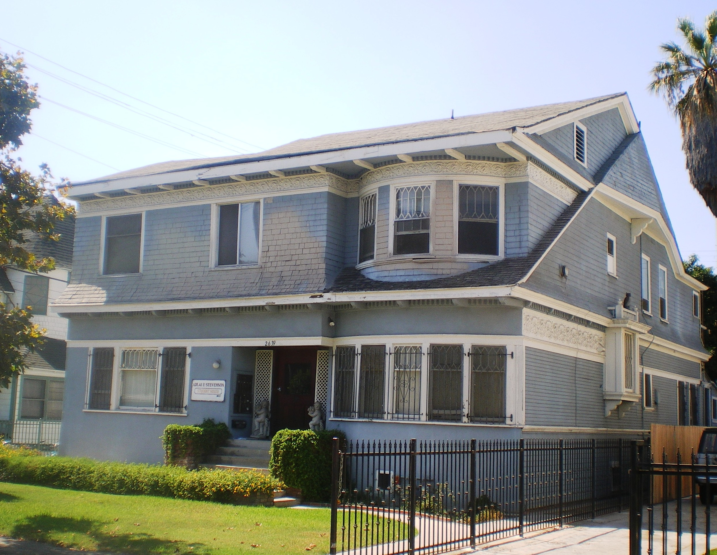 Birthplace of Adlai Stevenson, 2639 Monmouth Avenue, Los Angeles, California (North University Park Historic District)